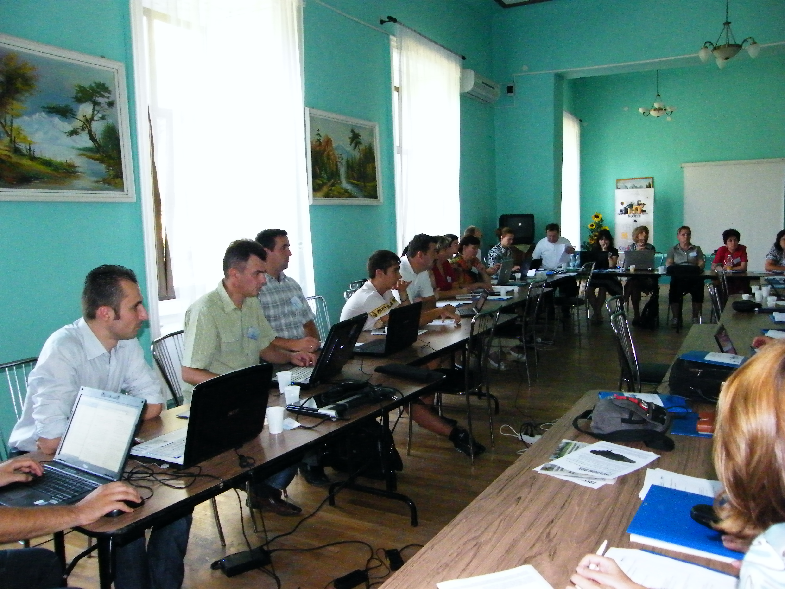 The group from "Informatica la Castel" Free Software Summer School, during proceedings -Macea, Arad County, Romania.